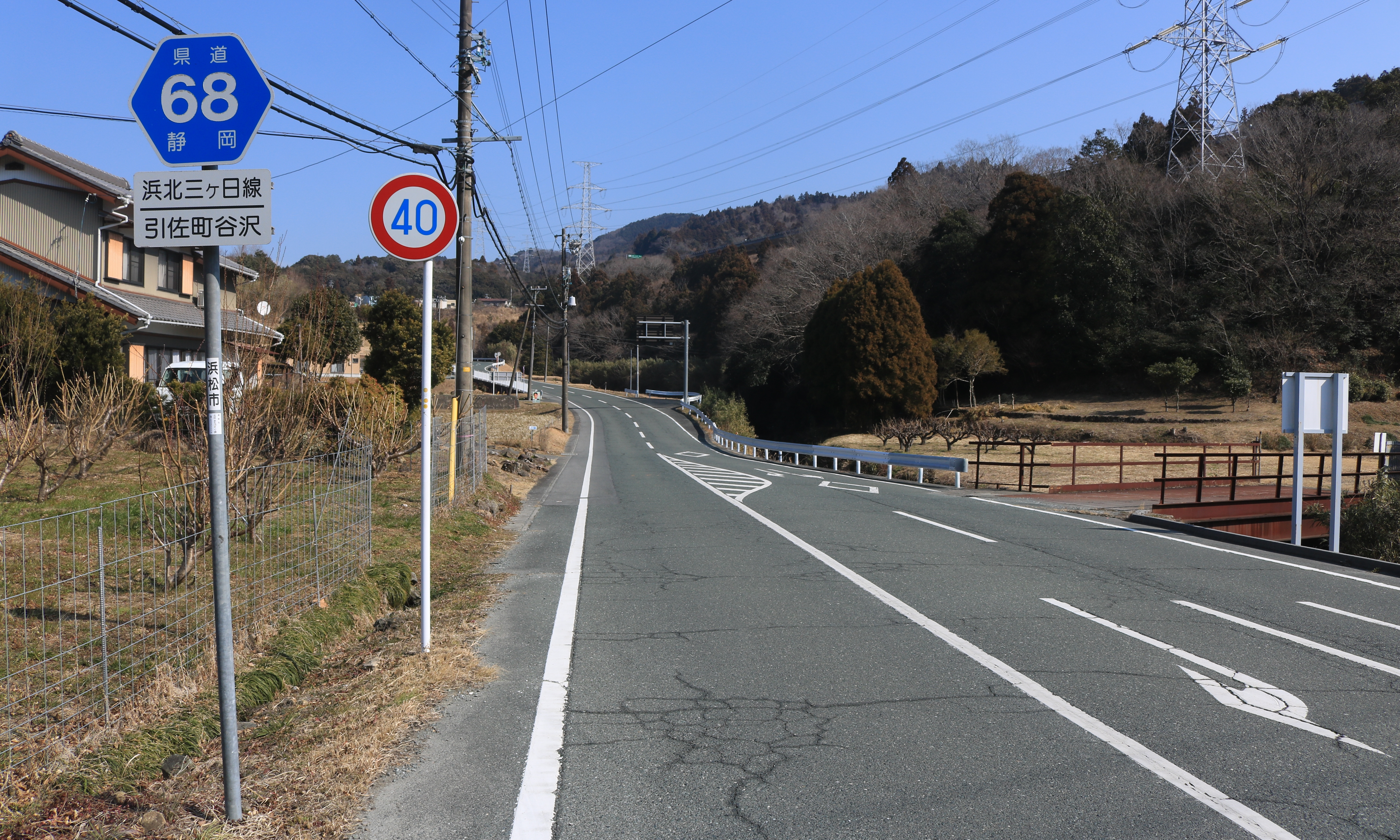 Shizuoka Prefectural Road Route 68 in Yazawa, Inasacho, Kita-ku, Hamamatsu, Shizuoka Prefecture, Japan. Canon EOS Kiss X8i